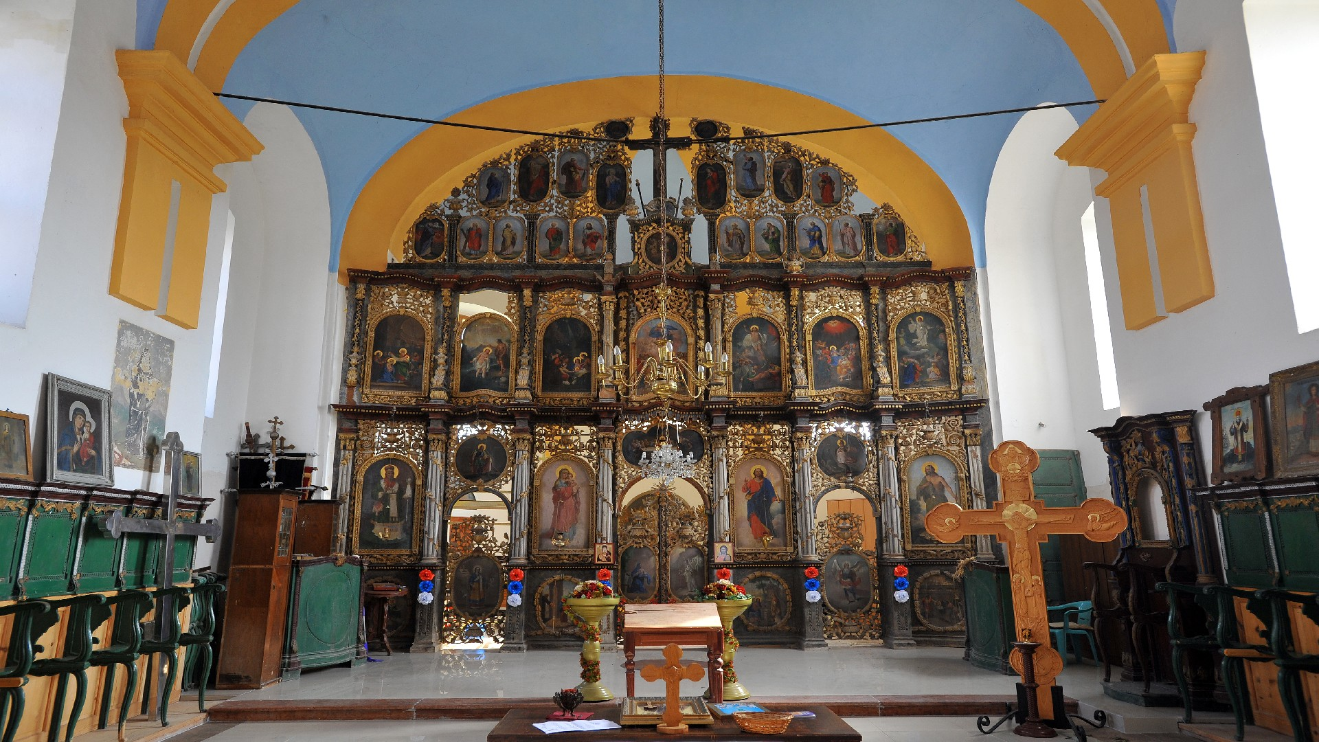 Naos and iconostasis in Serbian Orthodox Church of the Dormition of the Holy Virgin in Deč